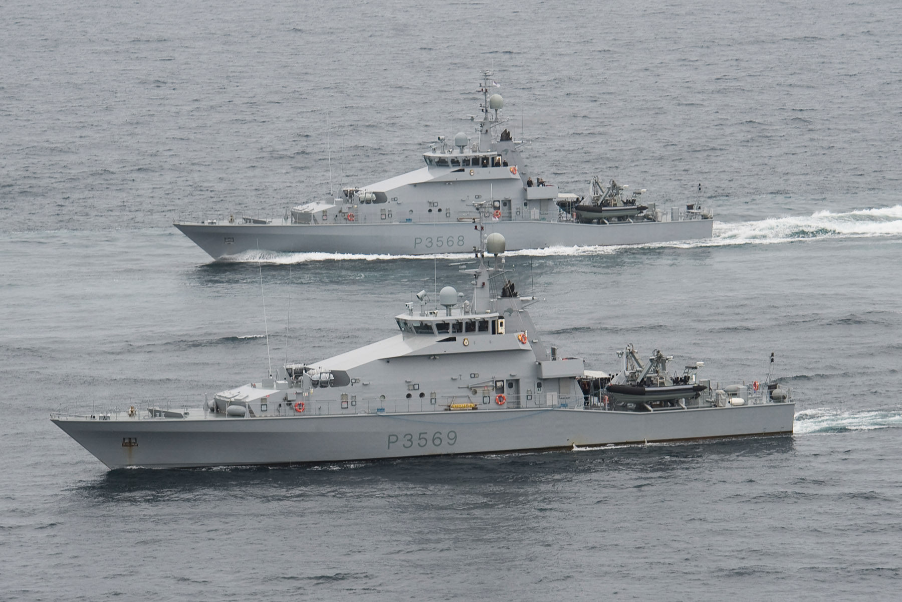 HMNZS Rotoiti (P3569) and HMNZS Pukaki (P3568) (at rear) conducting Fleet Officer of the Watch Manoeuvres in the Hauraki Gulf in December 2010